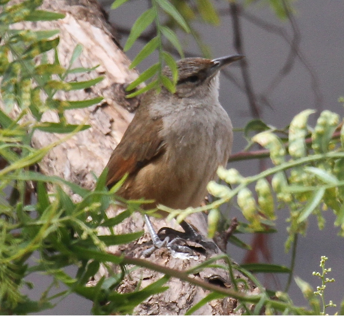 Lake Huacarpay - Peru